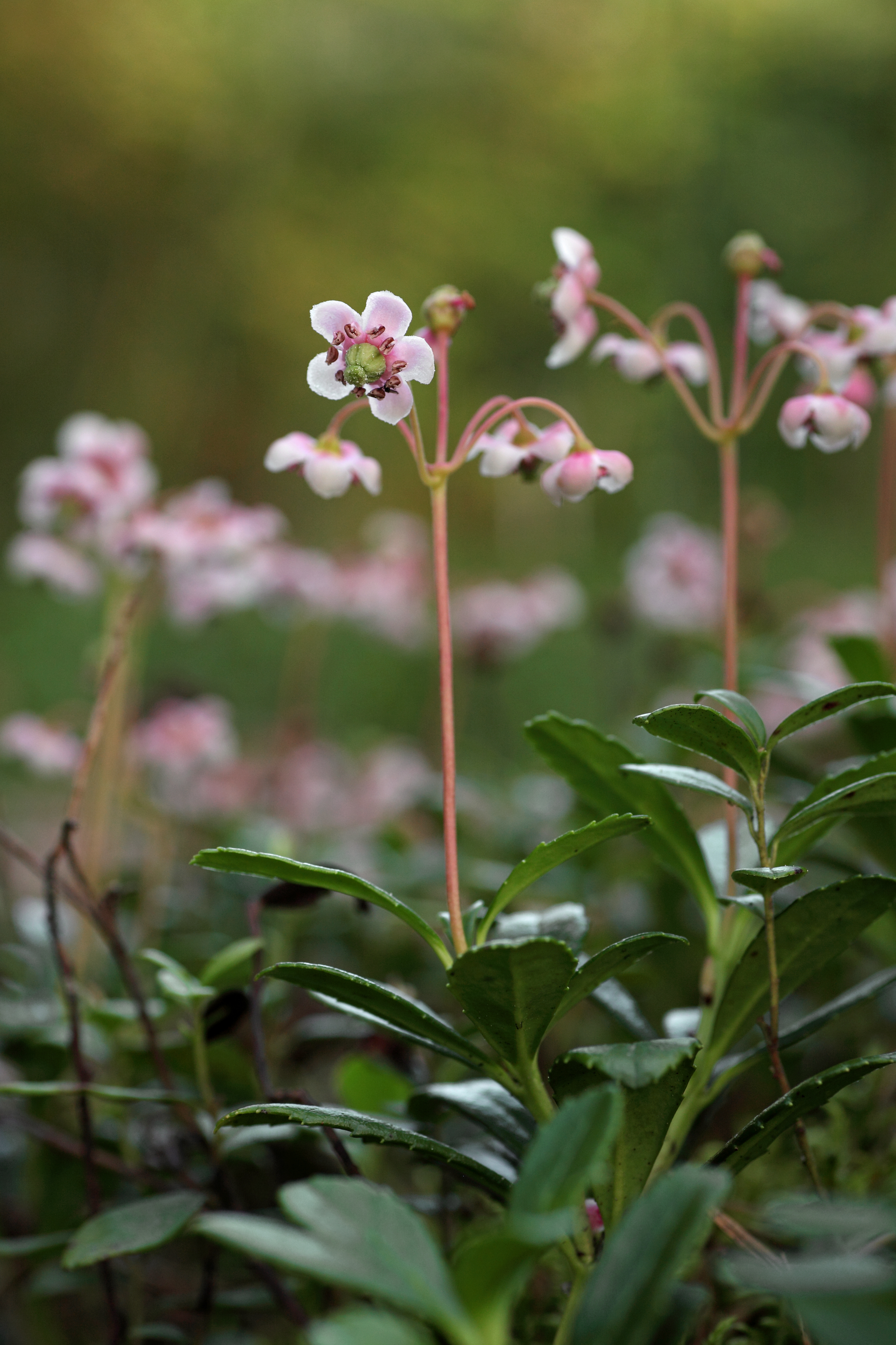 Chimaphila umbellata in Lehtmetsa village, Järva Parish, Estonia.